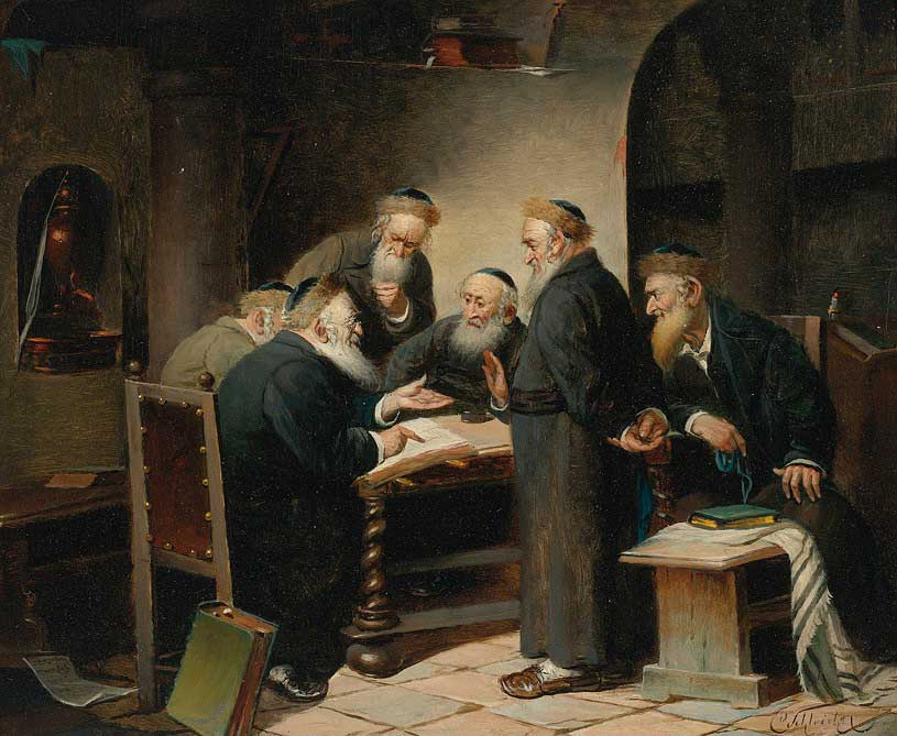 A group of rabbies debating Talmud